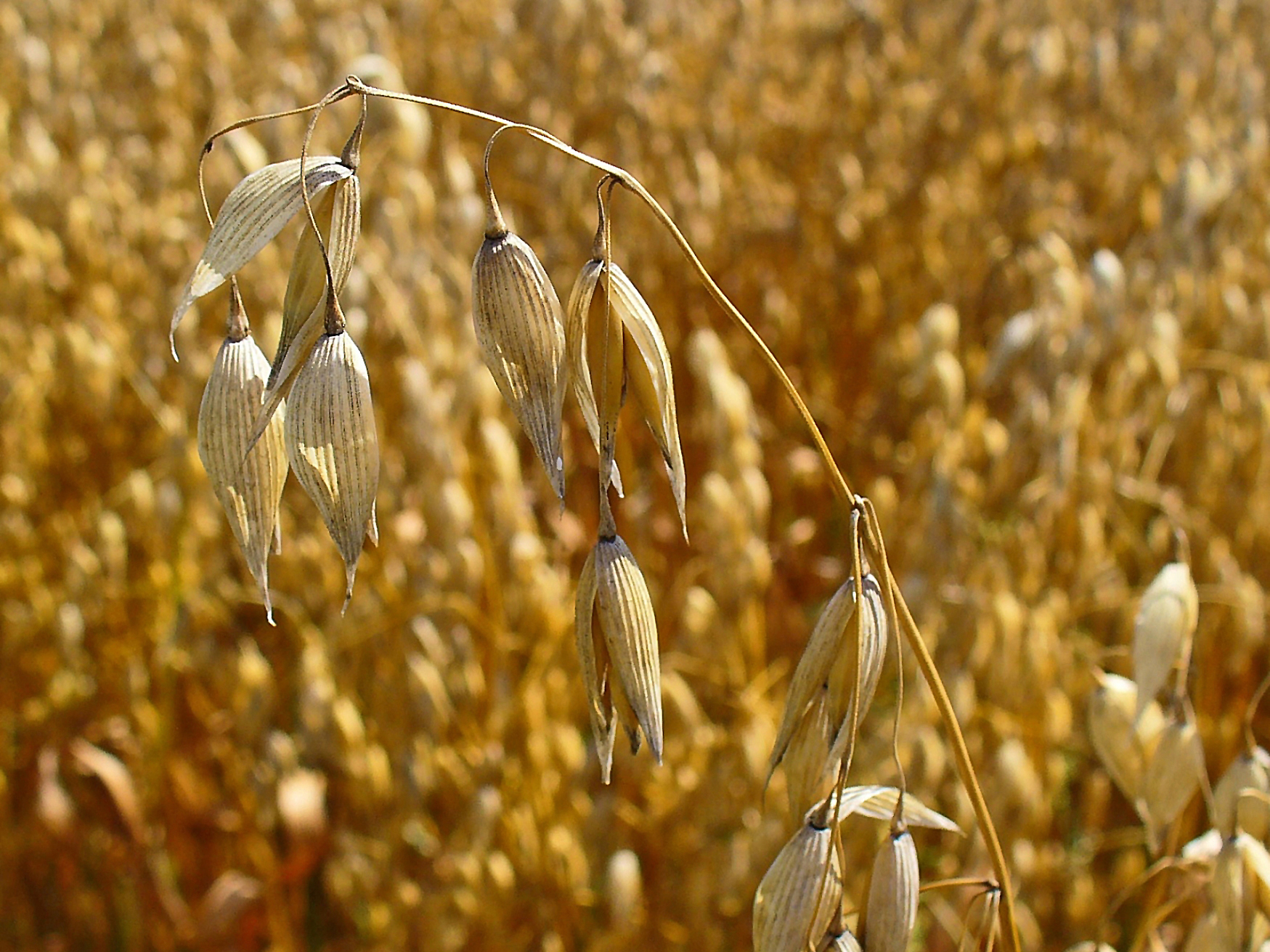 Avena sativa, Poaceae, Common Oat, infrutescence; Stutensee, Germany. The fresh aerial parts of the blooming plants are used in homeopathy as remedy: Avena sativa (Aven.)